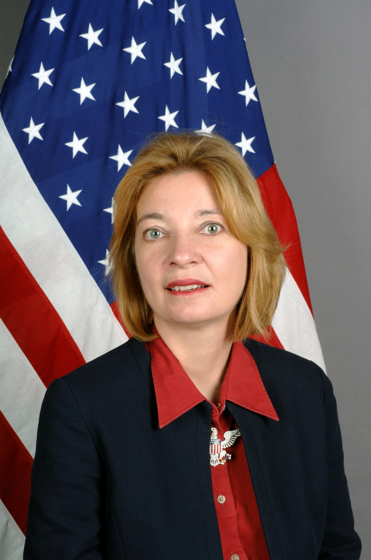 Tatiana C. Gfoeller. As of December 2008, the United States Ambassador to the Kyrgyz Republic.